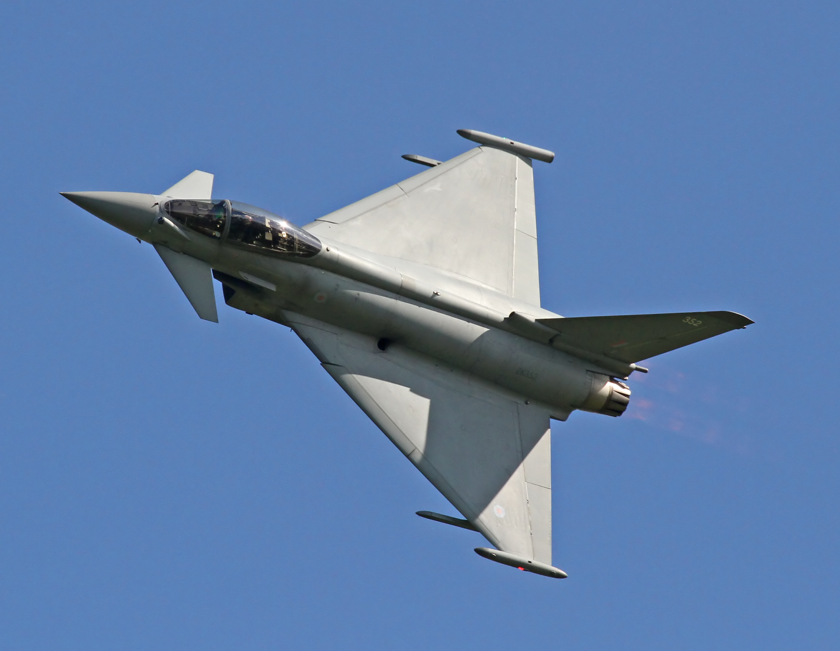 Eurofighter Typhoon